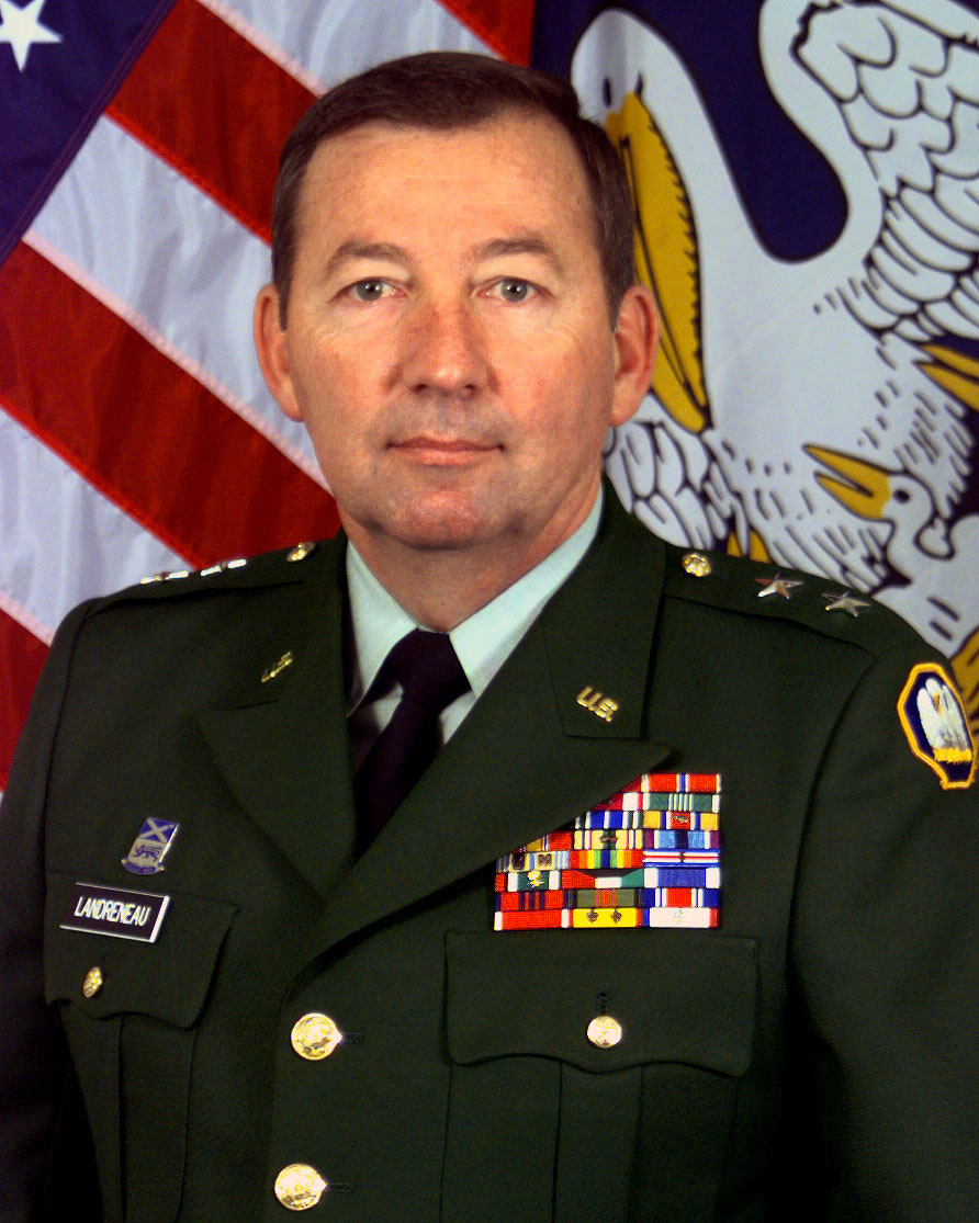 Official DA Photo of Bennett C. Landreneau